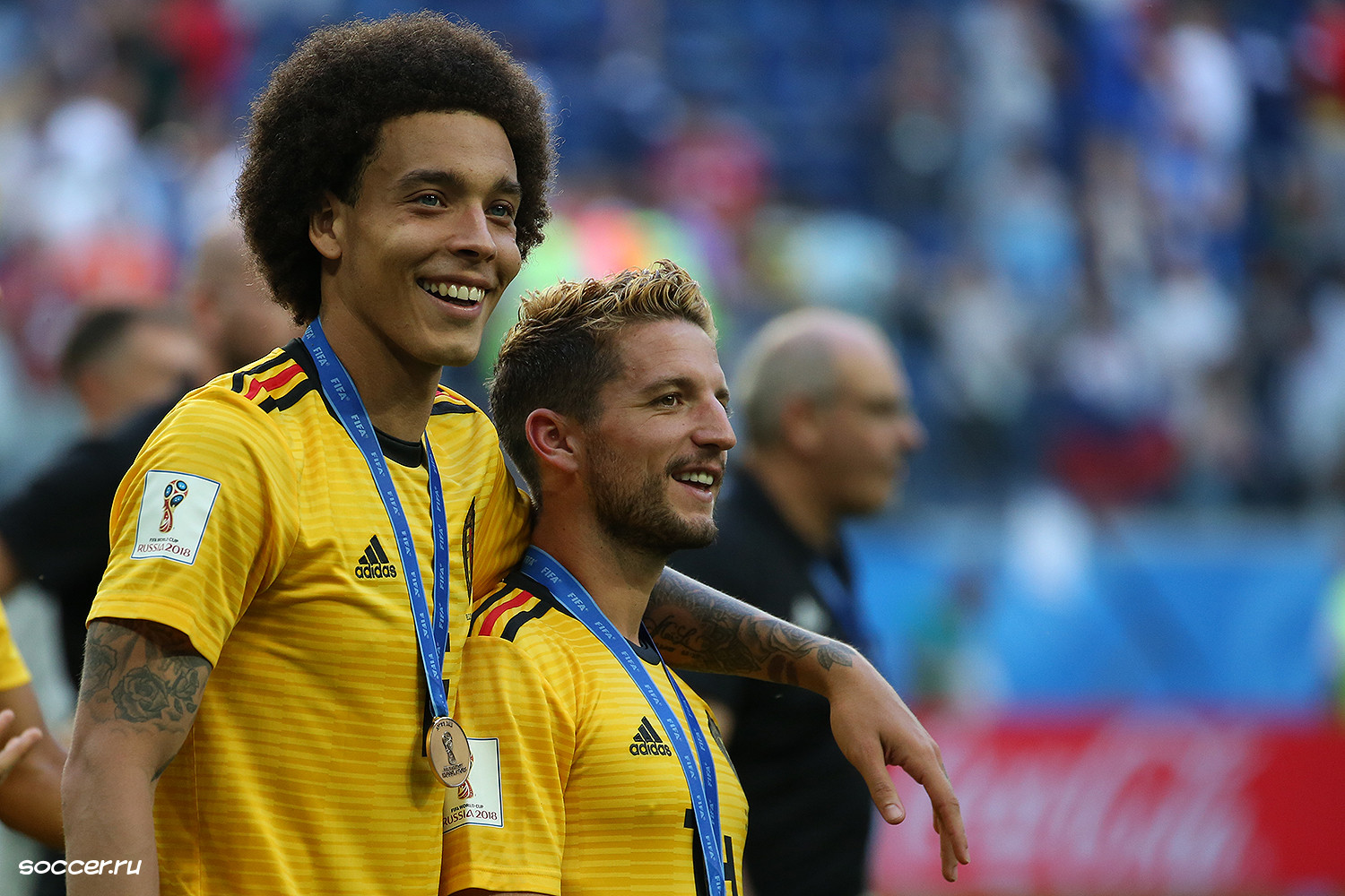 Belgium association football players Axel Witsel (left) and Dries Mertens (right) celebrate following Belgium's win in the third place play-off.